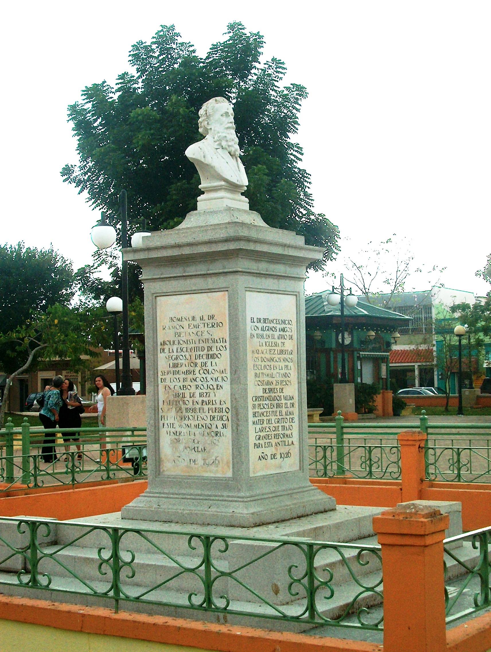 The author took this photograph of a bust of Ramón Emeterio Betances on April 1, 2007.